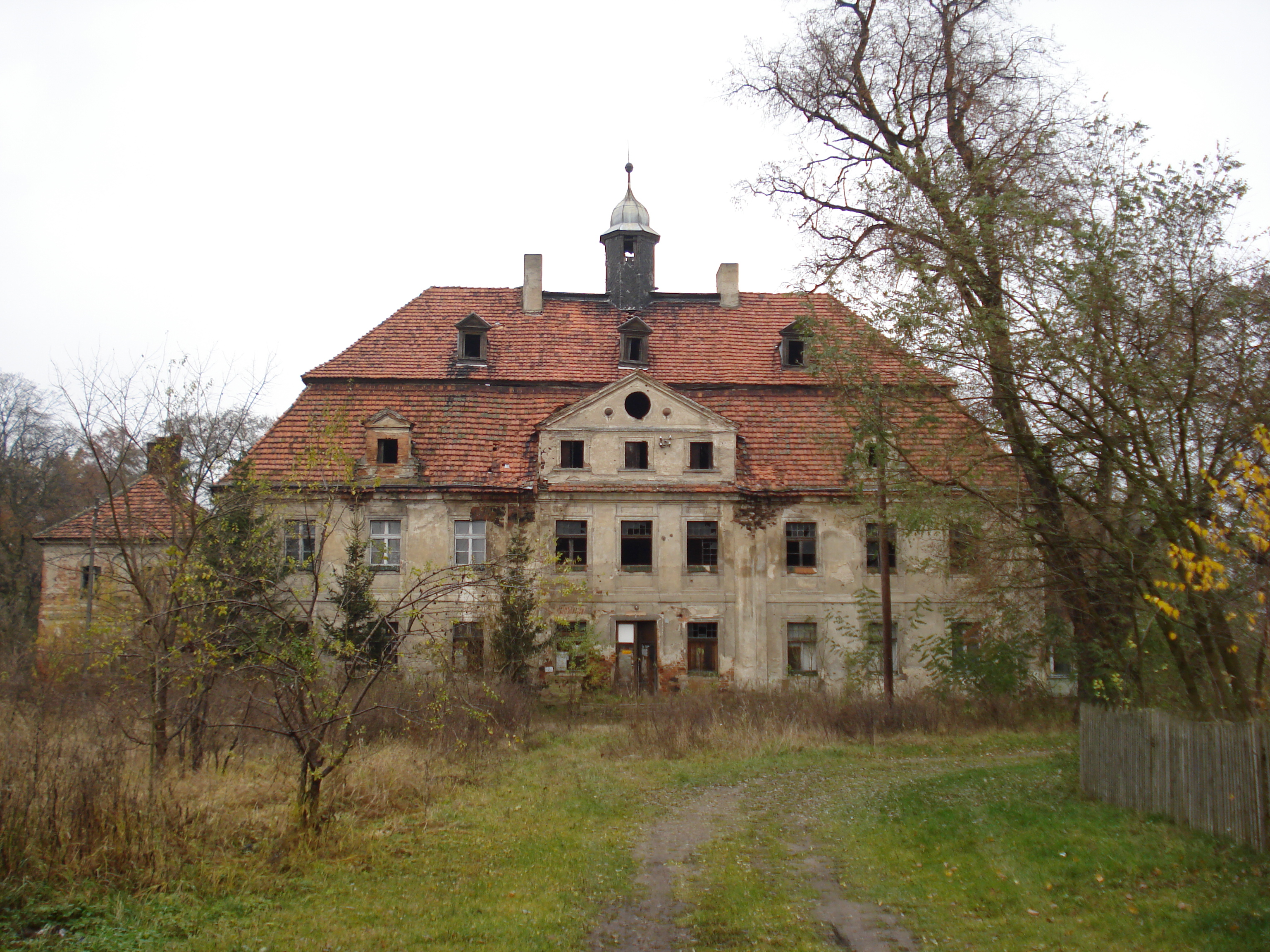 Palace in Sucha Wielka, Lower Silesian Voivodeship, Poland, 12.11.2009